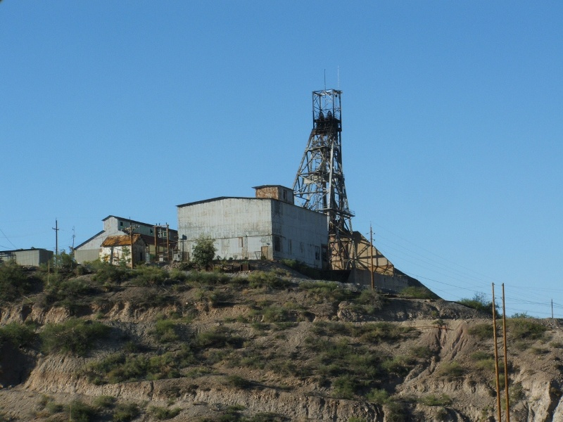 The Old Dominion Mine — in Globe and the Globe-Miami District of mines, in the Pinal Mountains of Gila County, Arizona. Underground mining at the site began in 1882, and continued until 1931. "During the period from 1882 to the cessation of operations in 1931, the Old Dominion and the United Globe mines [both owned at that time by Phelps Dodge & Co.] produced approximately 765 million pounds of copper, 89,480 ounces of gold, and 4,536,000 ounces of silver having a total value of about $125 million."